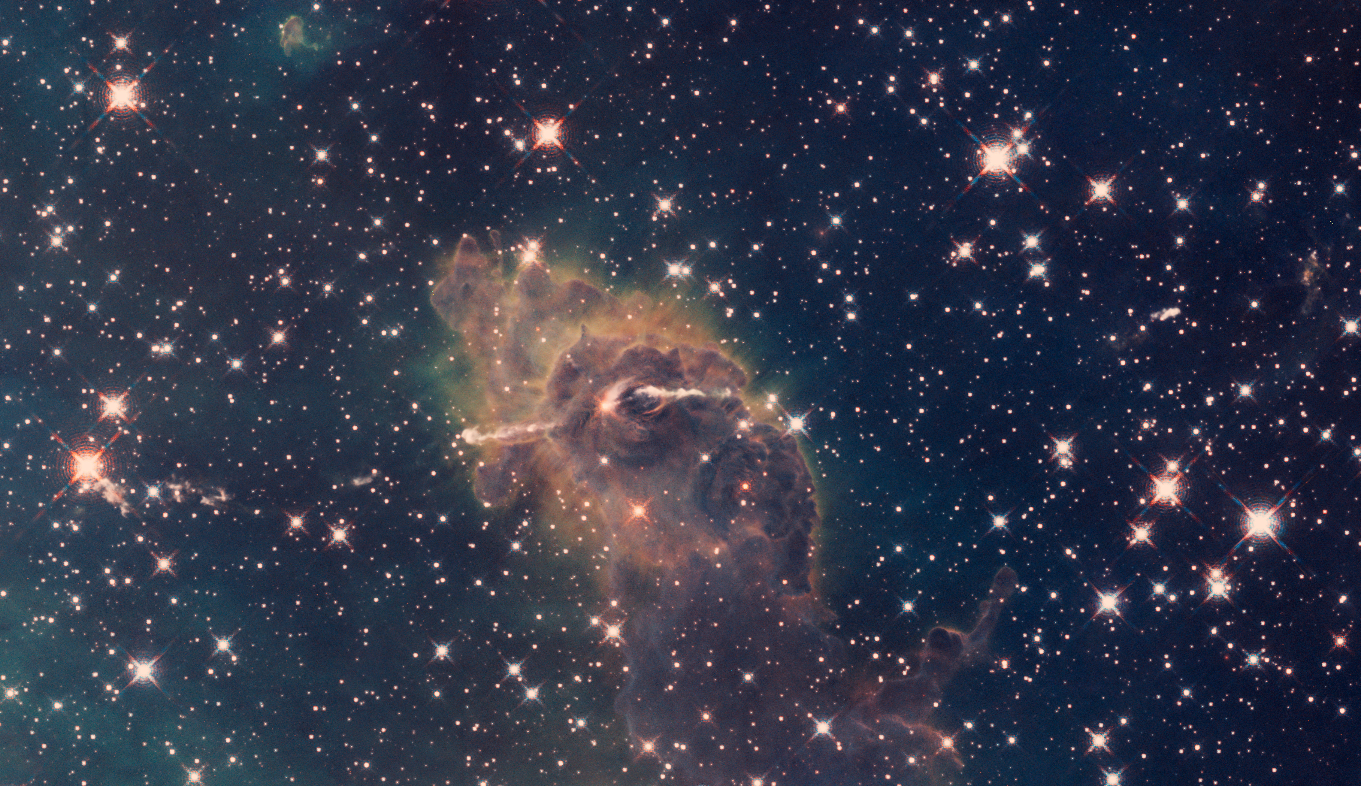 Composed of gas and dust, the pictured pillar resides in a tempestuous stellar nursery called the Carina Nebula, located 7500 light-years away in the southern constellation of Carina. This image is a composite of images in visible and infrared light. Hubble's Wide Field Camera 3 observed the Carina Nebula on 24-30 July 2009. The composite image was made from filters that isolate emission from iron, magnesium, oxygen, hydrogen and sulphur.